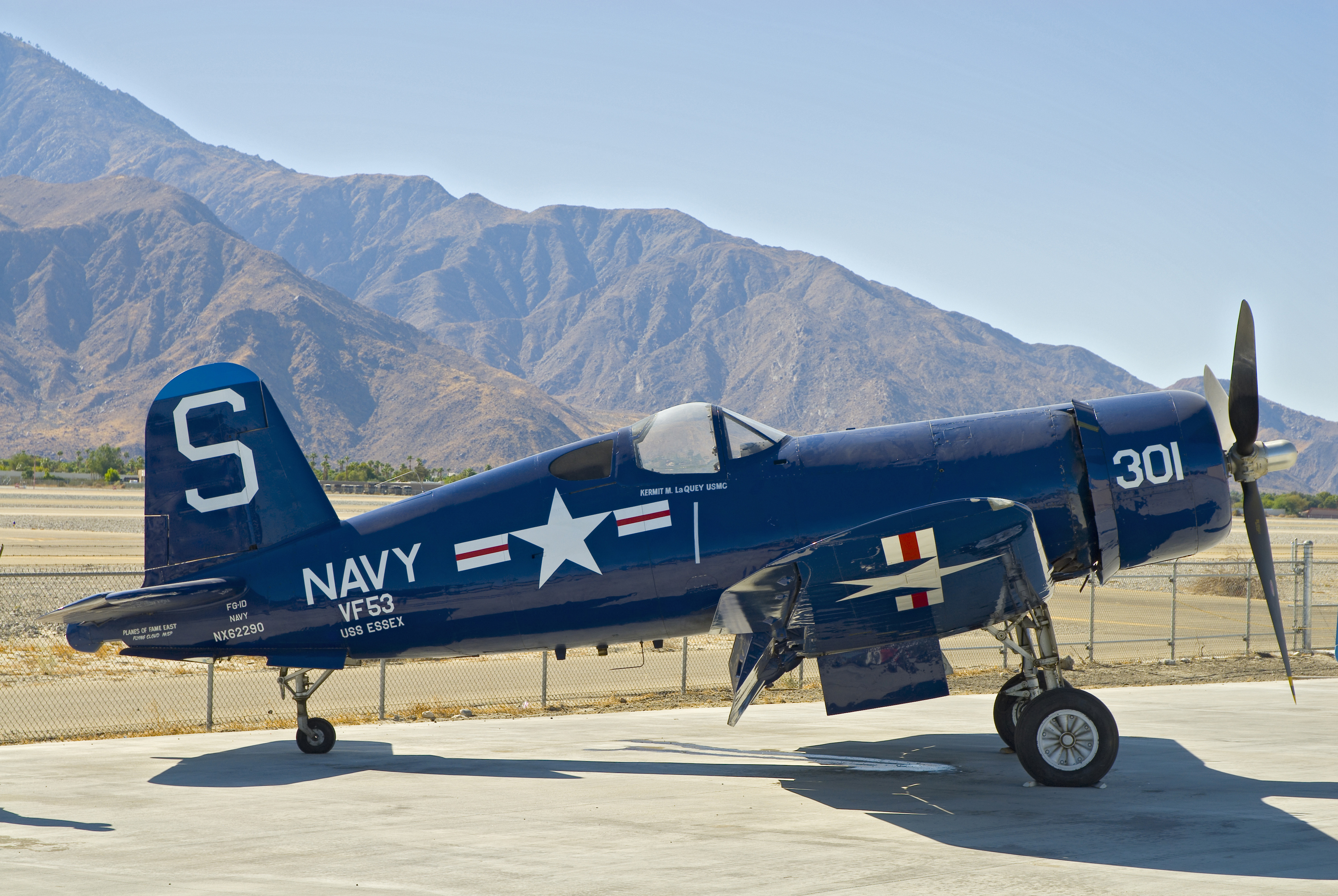 A Goodyear FG Corsair at the Palm Springs Air Museum.